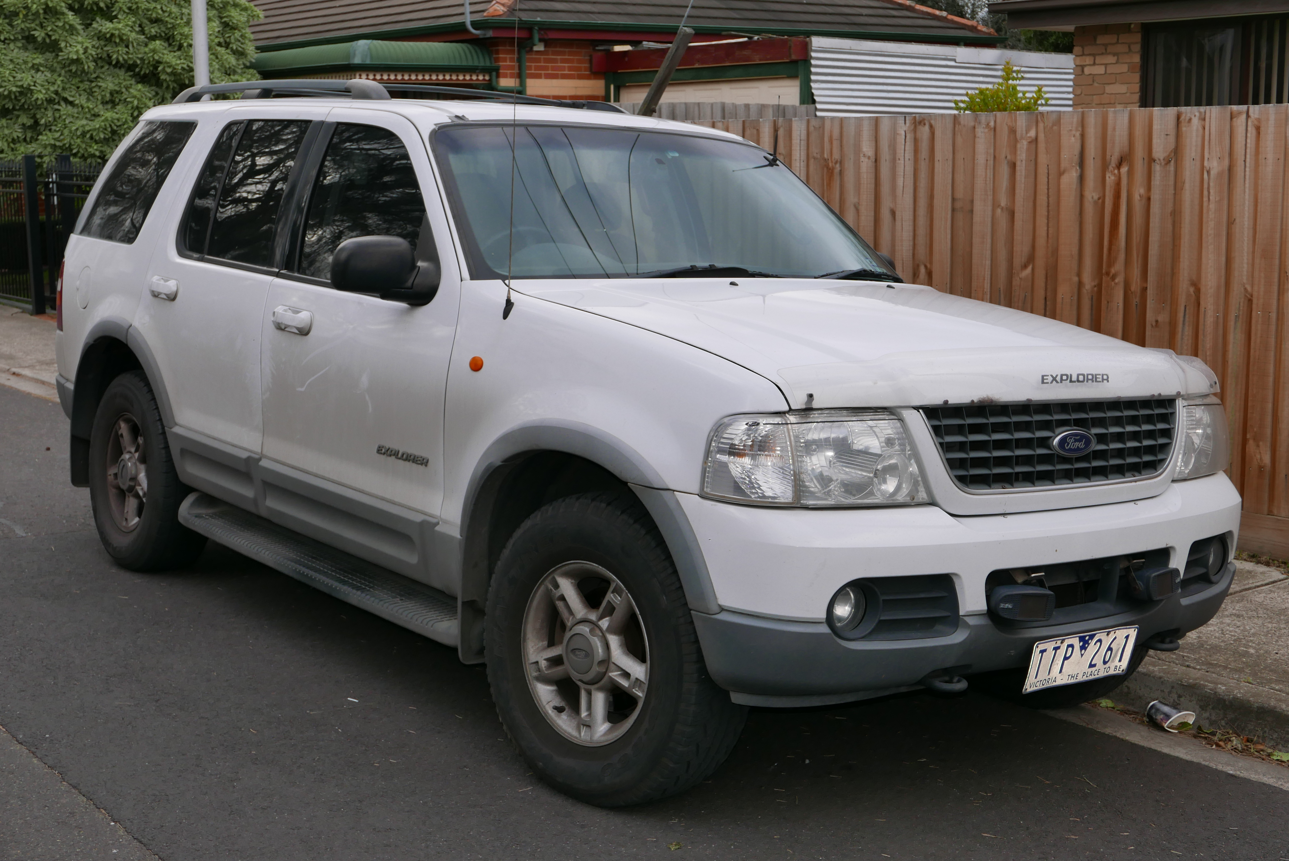 2002 Ford Explorer (UT) XLT wagon. Photographed in Fairfield, Victoria, Australia. Vehicle registration enquiry resultsJurisdictionVictoriaRegistrationTTP261Chassis code1FMDU73E42ZC79842Engine code2ZC79842Compliance date2002-08Year of manufacture2002